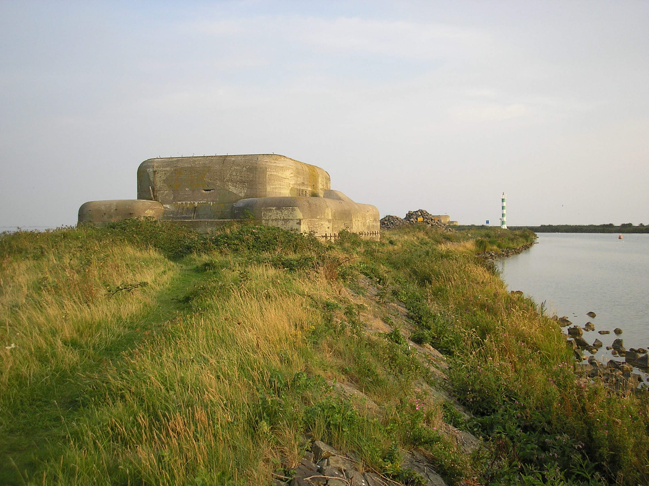 Kornwerderzand, Netherlands - Casemate